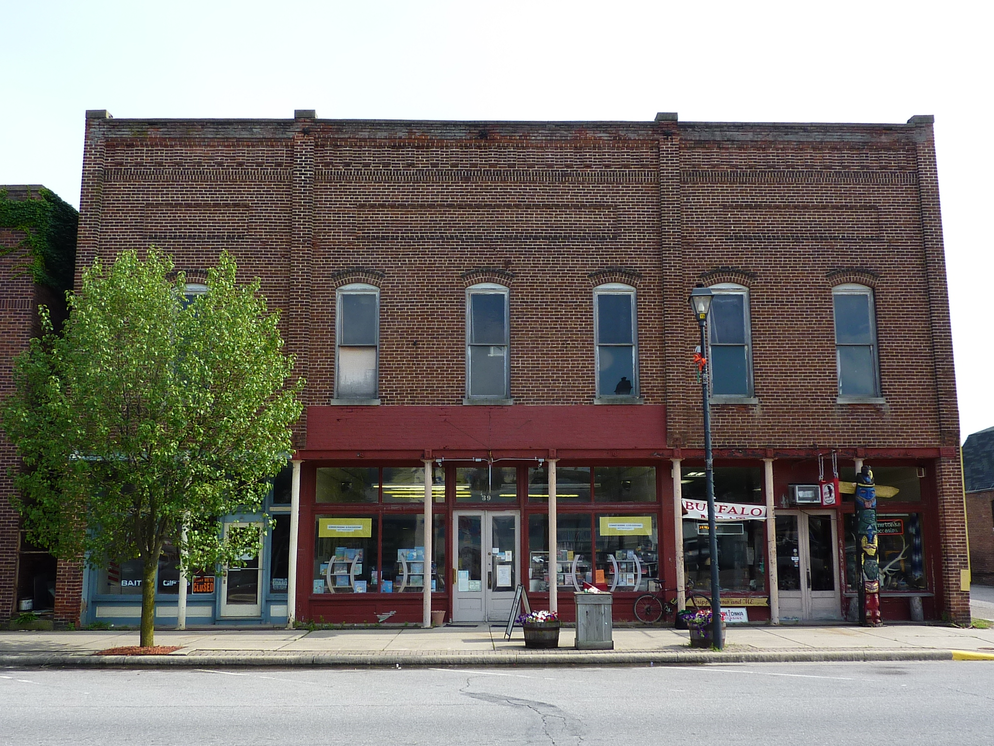 Downtown Morgantown, Indiana.